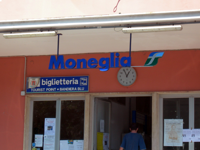 The train-station of Moneglia